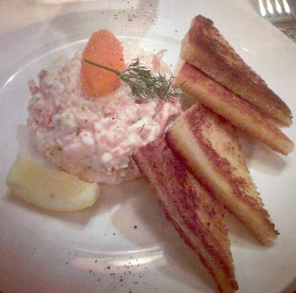 Swedish dish "Toast skagen"